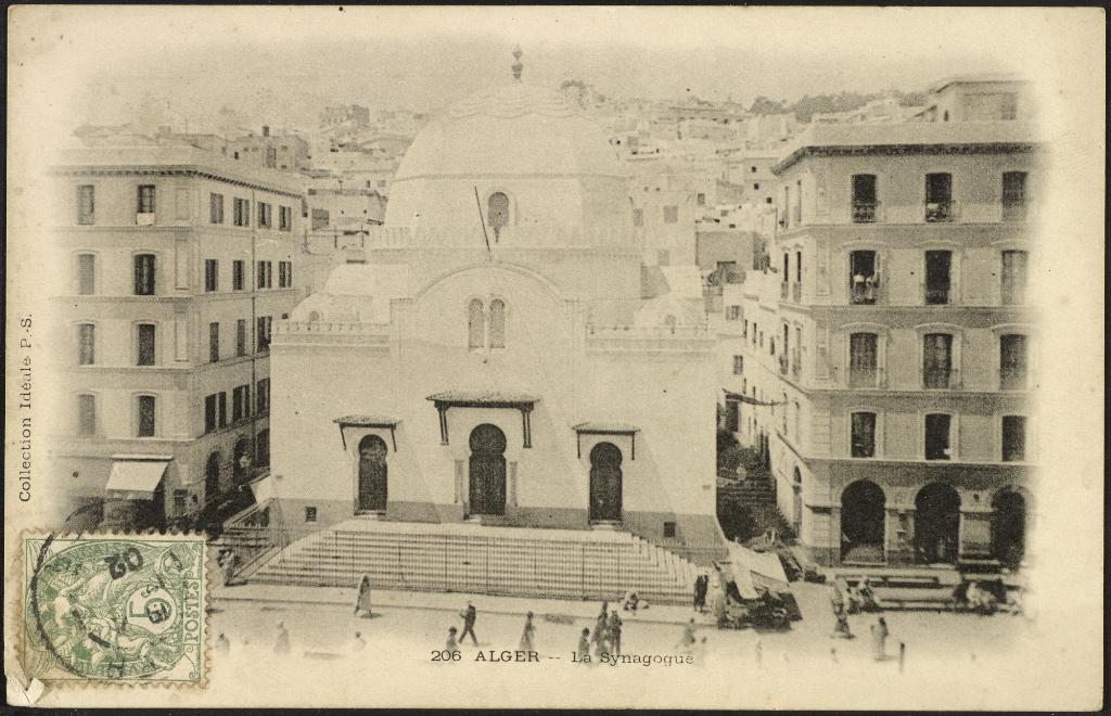 The Synagogue (GRI) Postcard of Algiers, 1902 Creator: Idéale Date: 1902 Accession number: ZPC2 A1A4 Featured in the exhibition, Walls of Algiers: Narratives of the City, May 19 - October 18, 2009 at the Getty Research Institute. Part of the Cities and Sites Postcard collection in the Getty Research Institute Library's special collections. View the library record for this collection.